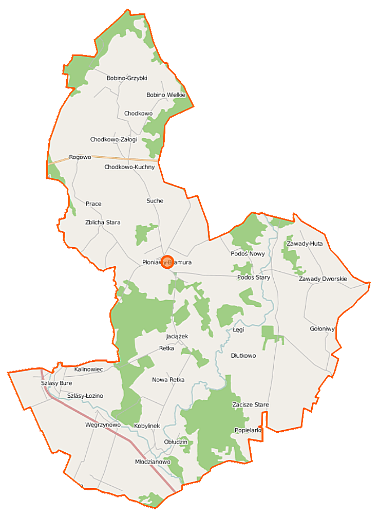 Map of Gmina Płoniawy-Bramura, Poland This map of Płoniawy-Bramura (gmina) was created from OpenStreetMap project data, collected by the community. This map may be incomplete, and may contain errors. Don't rely solely on it for navigation. Border coordinates53.073420.9674←↕→21.191652.8901